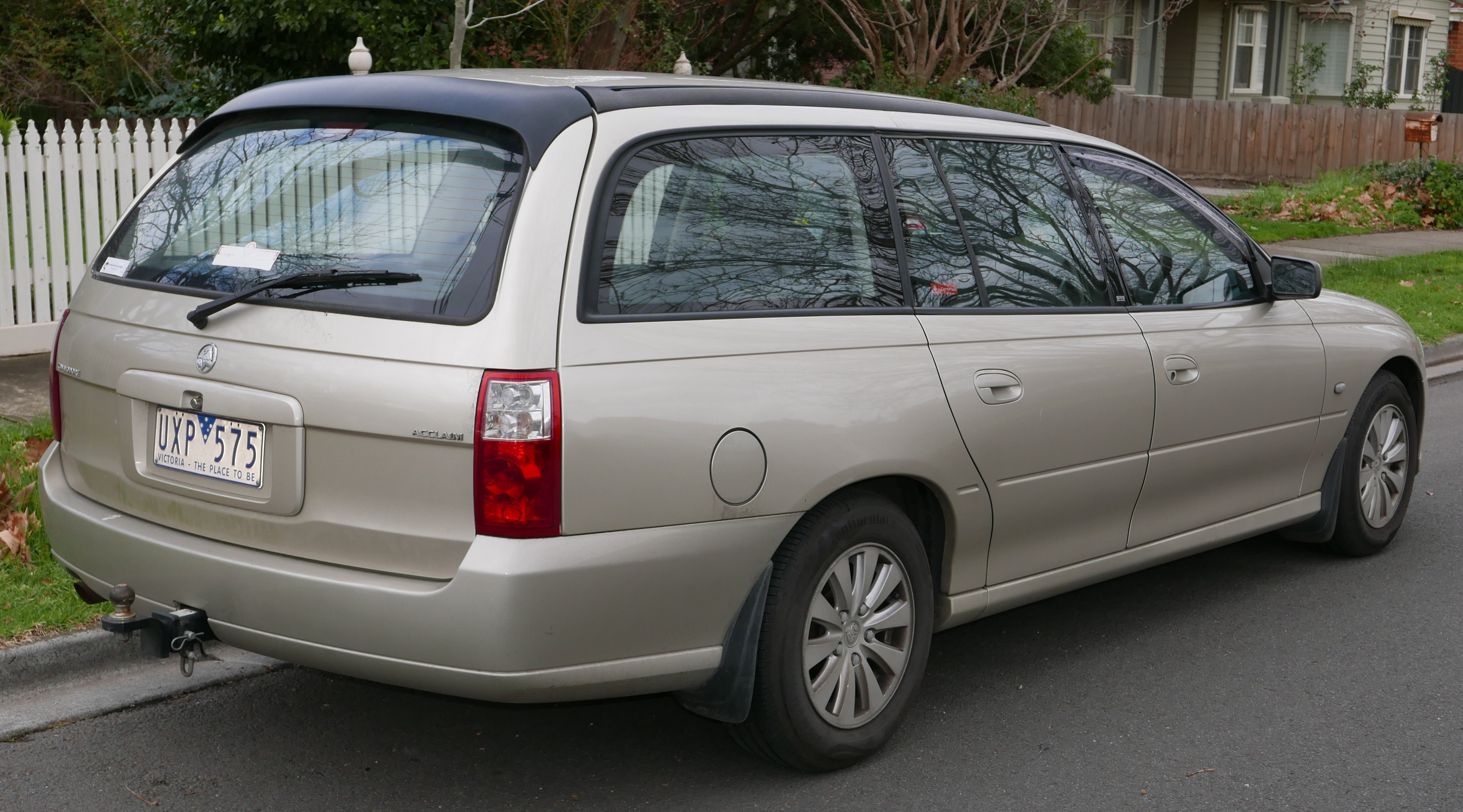 2006 Holden Commodore (VZ MY07) Acclaim station wagon. Photographed in Alphington, Victoria, Australia. Vehicle registration enquiry resultsJurisdictionVictoriaRegistrationUXP575Chassis code6G1ZK84B76L892665Engine codeLE0062930592Compliance date2006-11Year of manufacture2006